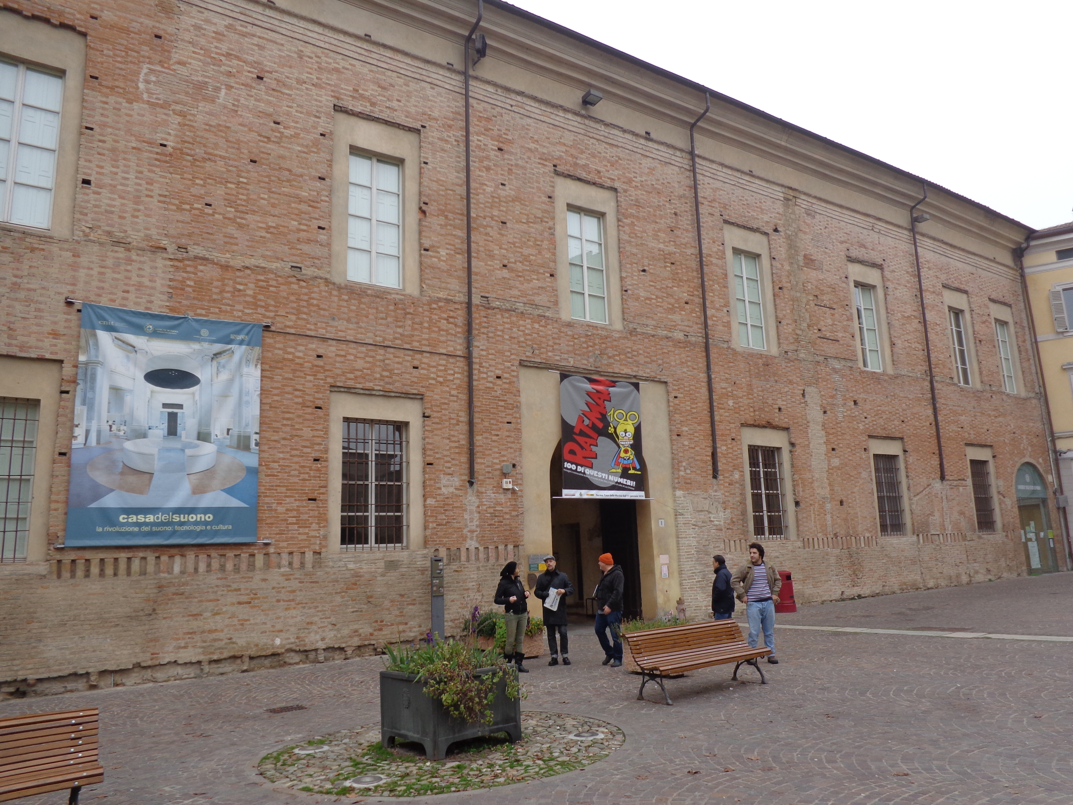 2014 Rat-Con in Parma (celebrations for the 100th issue of the comic Rat-Man)